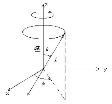 Efeito zeeman normal - larmor